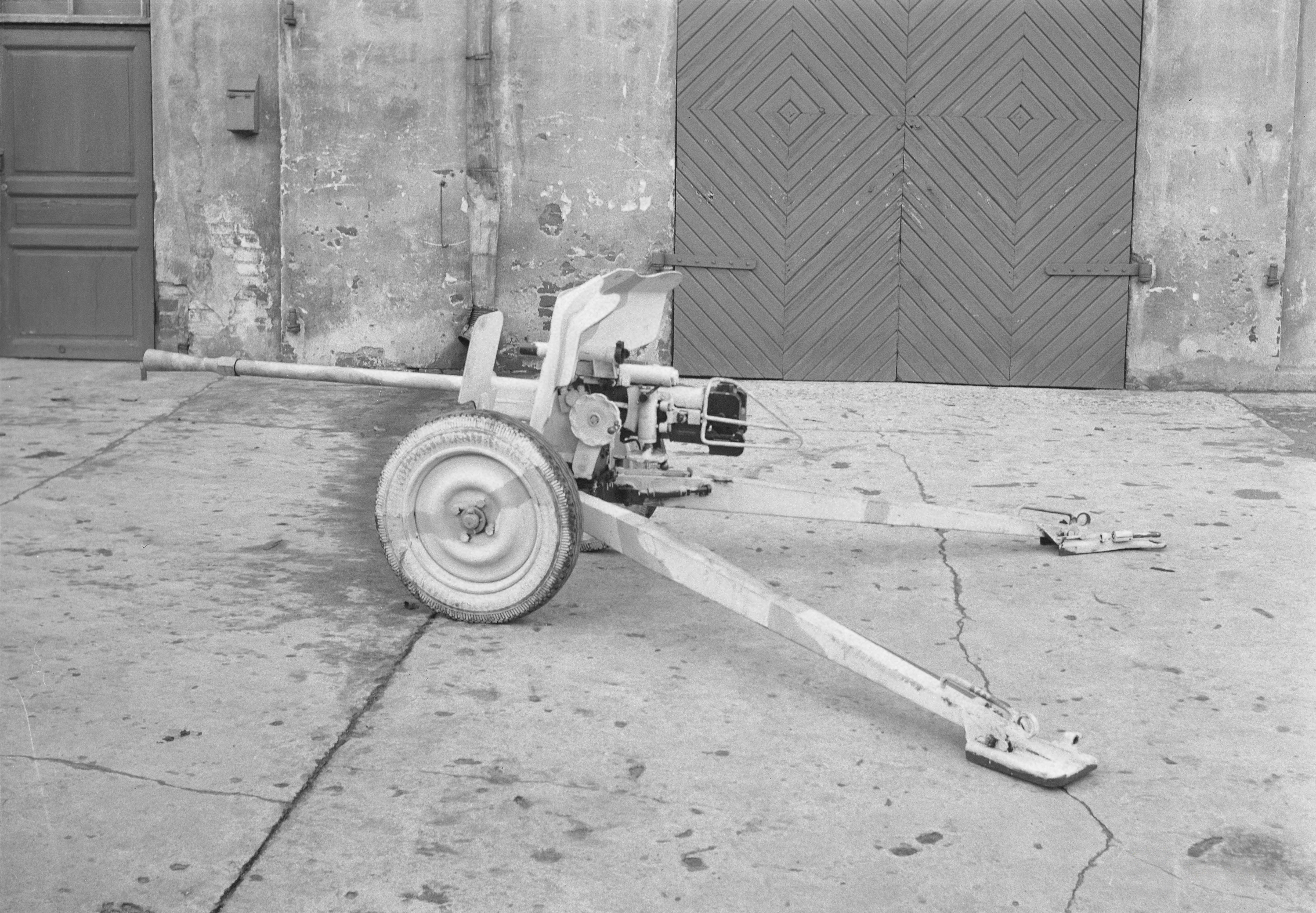 French 25 mm Hotchkiss anti-tank gun in Finnish service. French designation was Canon léger de 25 antichar SA-L modèle 1934. Finnish designation of the gun was 25 PstK34.